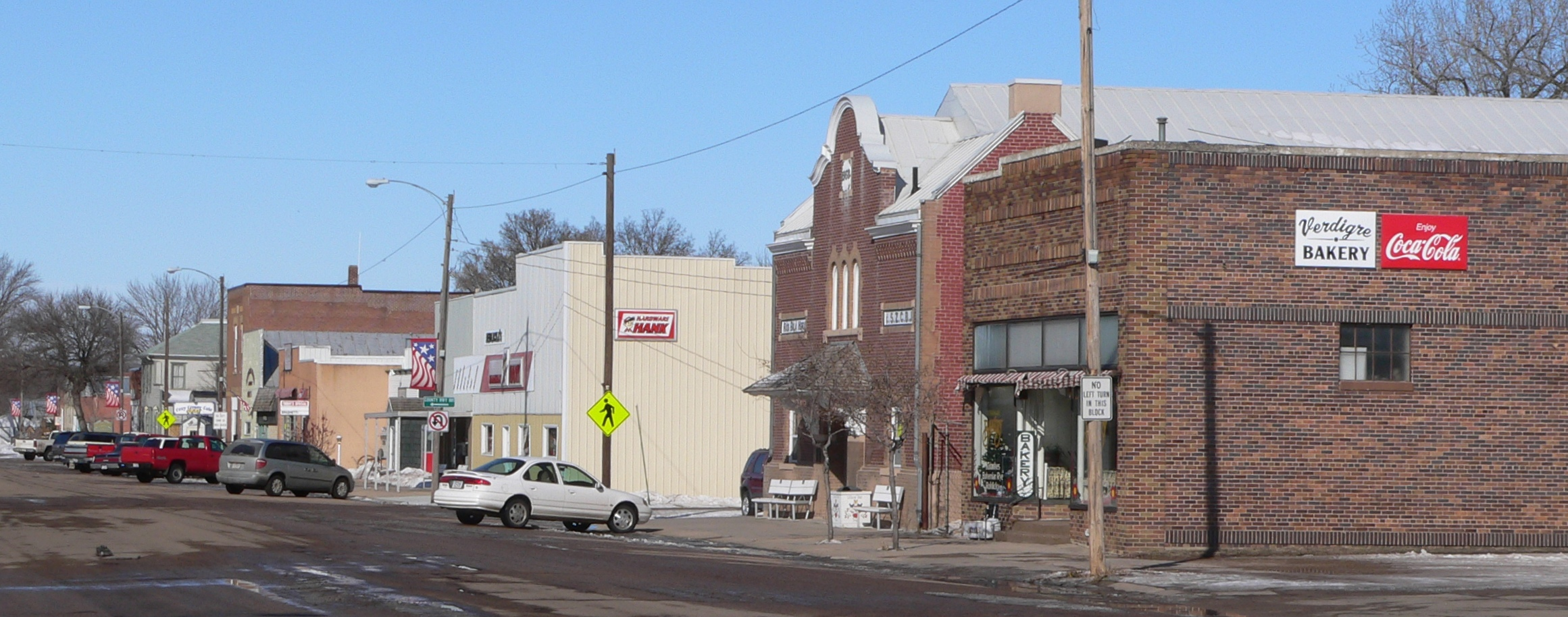 Downtown Verdigre, Nebraska: east side of Main Street looking north from 5th Avenue. Two of the buildings in this picture are listed in the National Register of Historic Places. The building immediately behind the Verdigre Bakery is the Z.C.B.J. Opera House; the gray building with the sloped roof in the distance behind the red pickup is the Commercial Hotel.